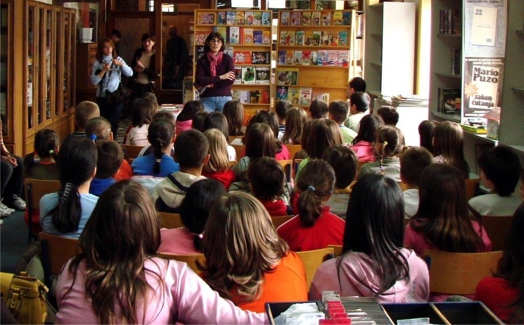 Jasminka Petrović, Serbian writer for children and youth. Workshop with children in the "Ljubomir Nenadović" library in Valjevo, Serbia